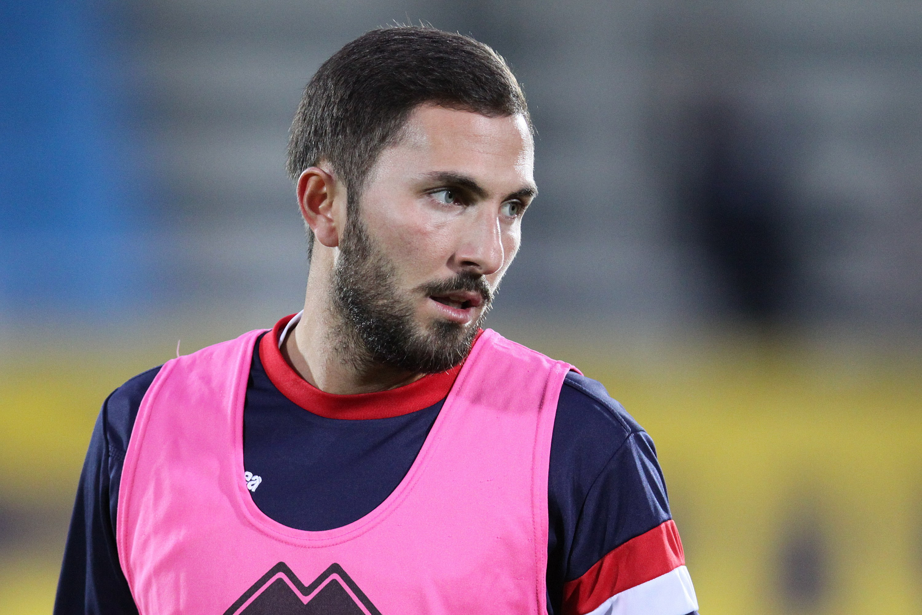 Match of the Erste Liga – SC Wiener Neustadt (blue/white shirts) vs. SK Austria Klagenfurt (red/white shirts) 1–1 (0-1) on 2015-10-20 in the Stadion in Wiener Neustadt – The photo shows Ali Hamdemir (SK Austria Klagenfurt).